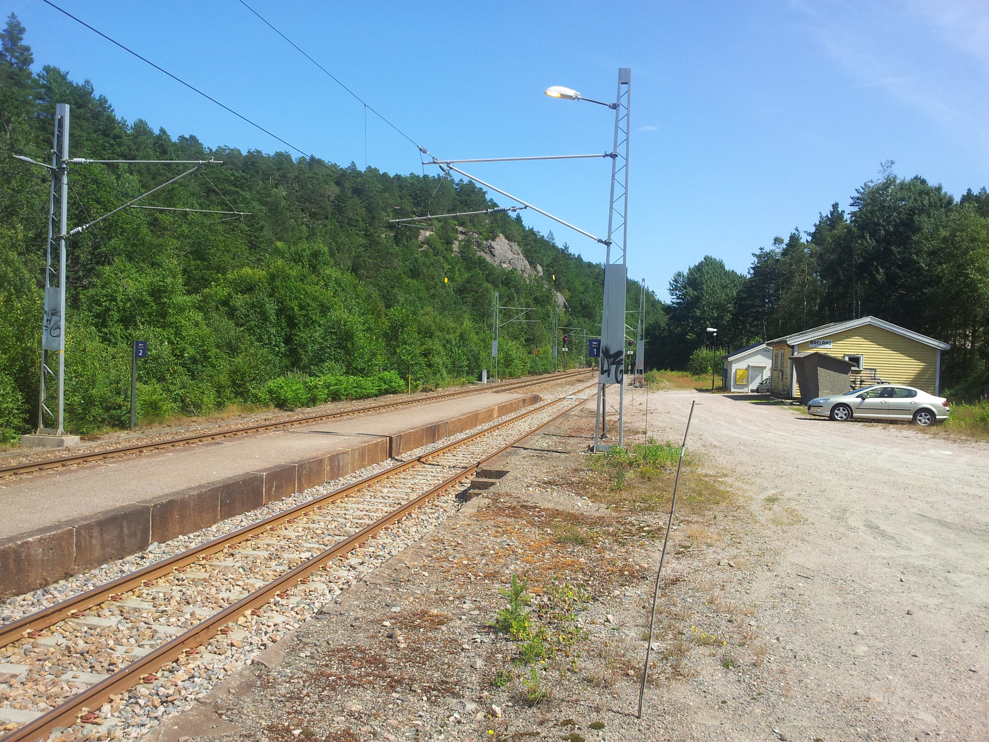 Breland statjon 2013